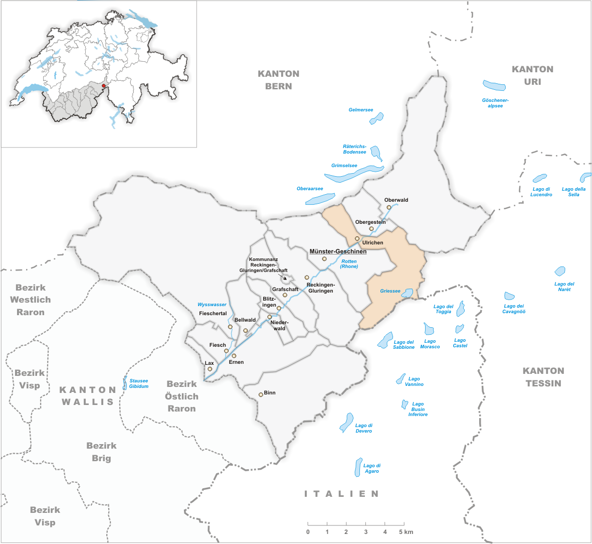 Municipality Ulrichen